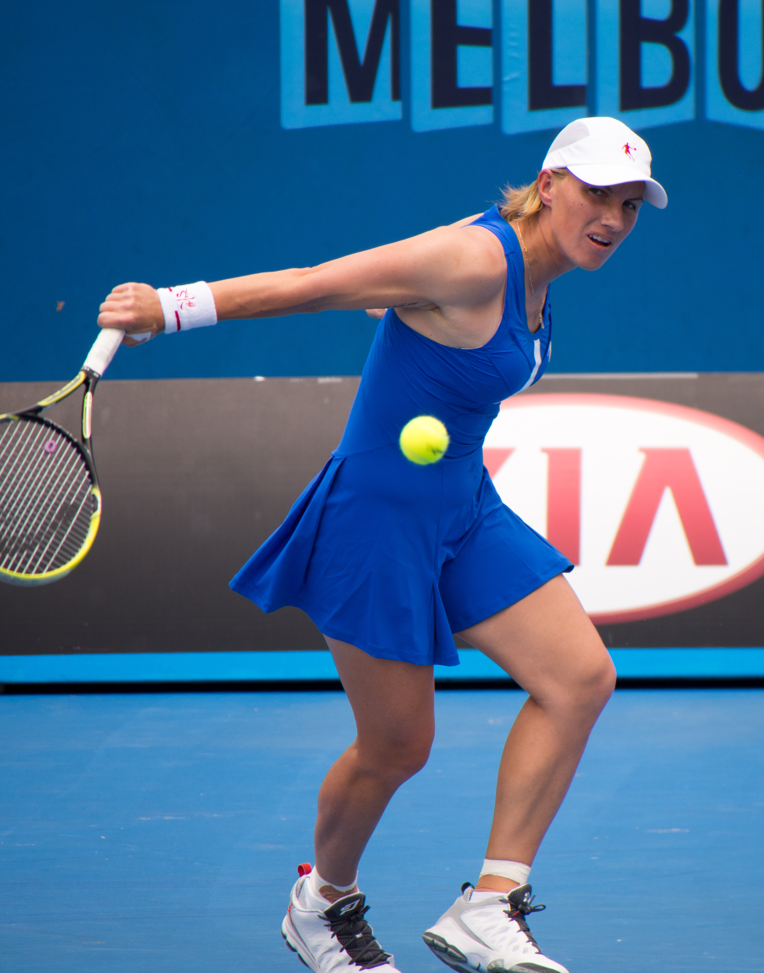 Svetlana Kuznetsova during her 2nd round straight-sets win to Su-Wei Hsieh at the 2013 Australian Open